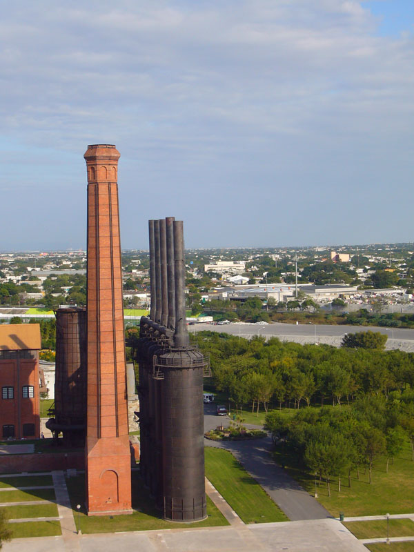 The former Fundidora de Acero de Monterrey steel mill towers near Monterrey, México. Present day location of Parque Fundidora, a public park preserving the sculptural mill ruins, with the new Museo del Acero (steel museum).